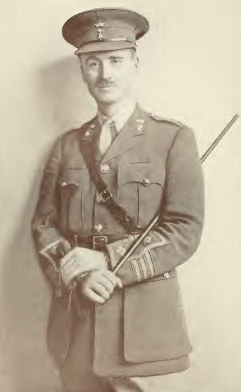 Lt-Colonel John Henry Patterson, from his book "With the Judaeans in the Palestine Campaign"